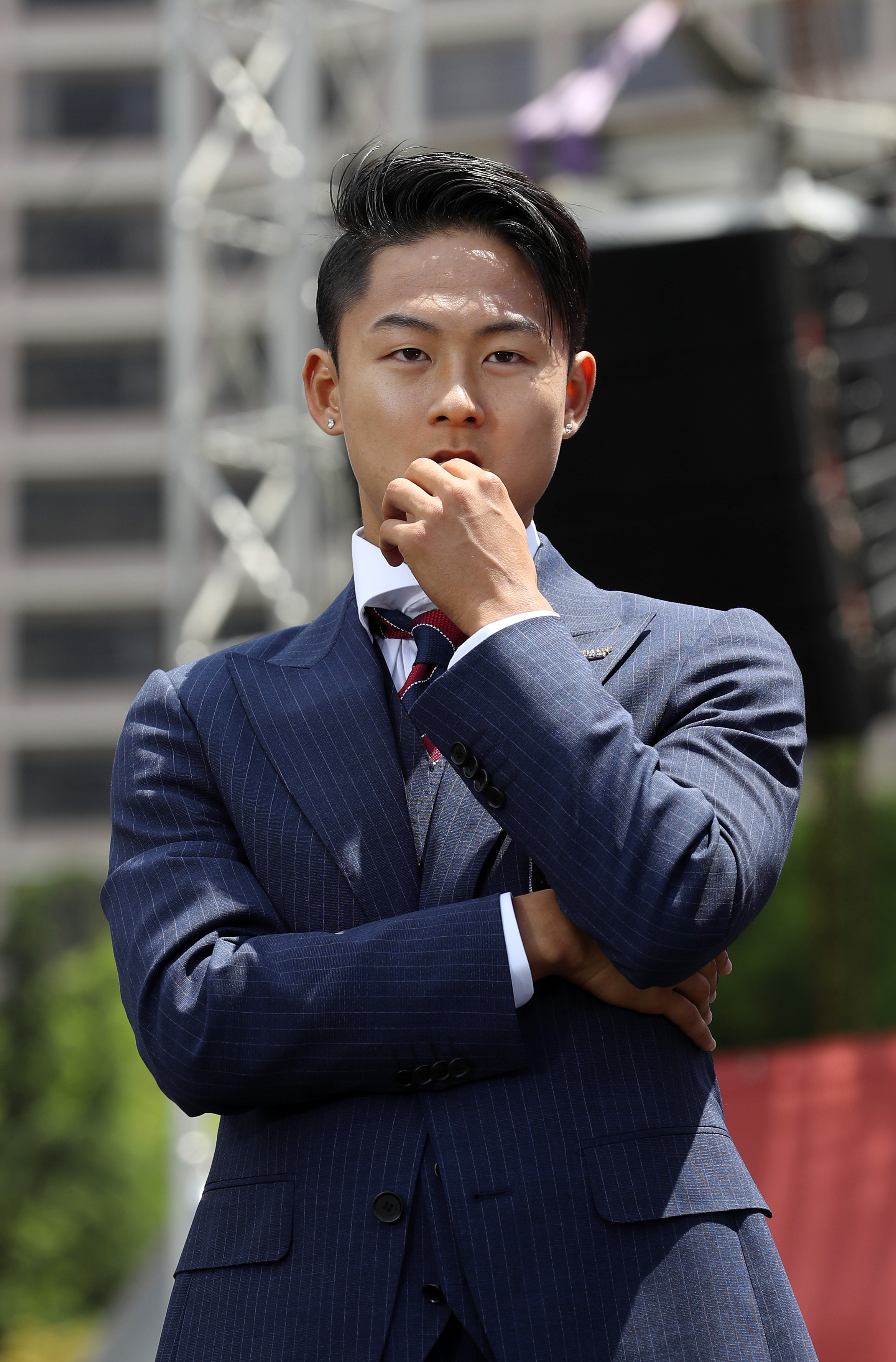 Team Korea Official Ceremony for '2018 FIFA World Cup Russia' May 21, 2018 Seoul Plaza, Jung-gu, Seoul Ministry of Culture, Sports and Tourism Korean Culture and Information Service ( Official Photographer : Jeon Han This official Republic of Korea photograph is being made available only for publication by news organizations and/or for personal printing by the subject(s) of the photograph. The photograph may not be manipulated in any way. Also, it may not be used in any type of commercial, advertisement, product or promotion that in any way suggests approval or endorsement from the government of the Republic of Korea.